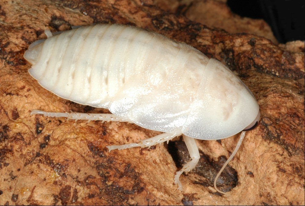 Blaberus discoidalis. (Caution: some doubt based on pronotum (head shield) pattern of adult in companion image).